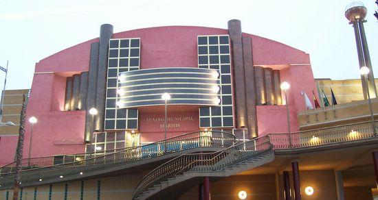 Theater Maestro Álvarez Alonso of Martos.